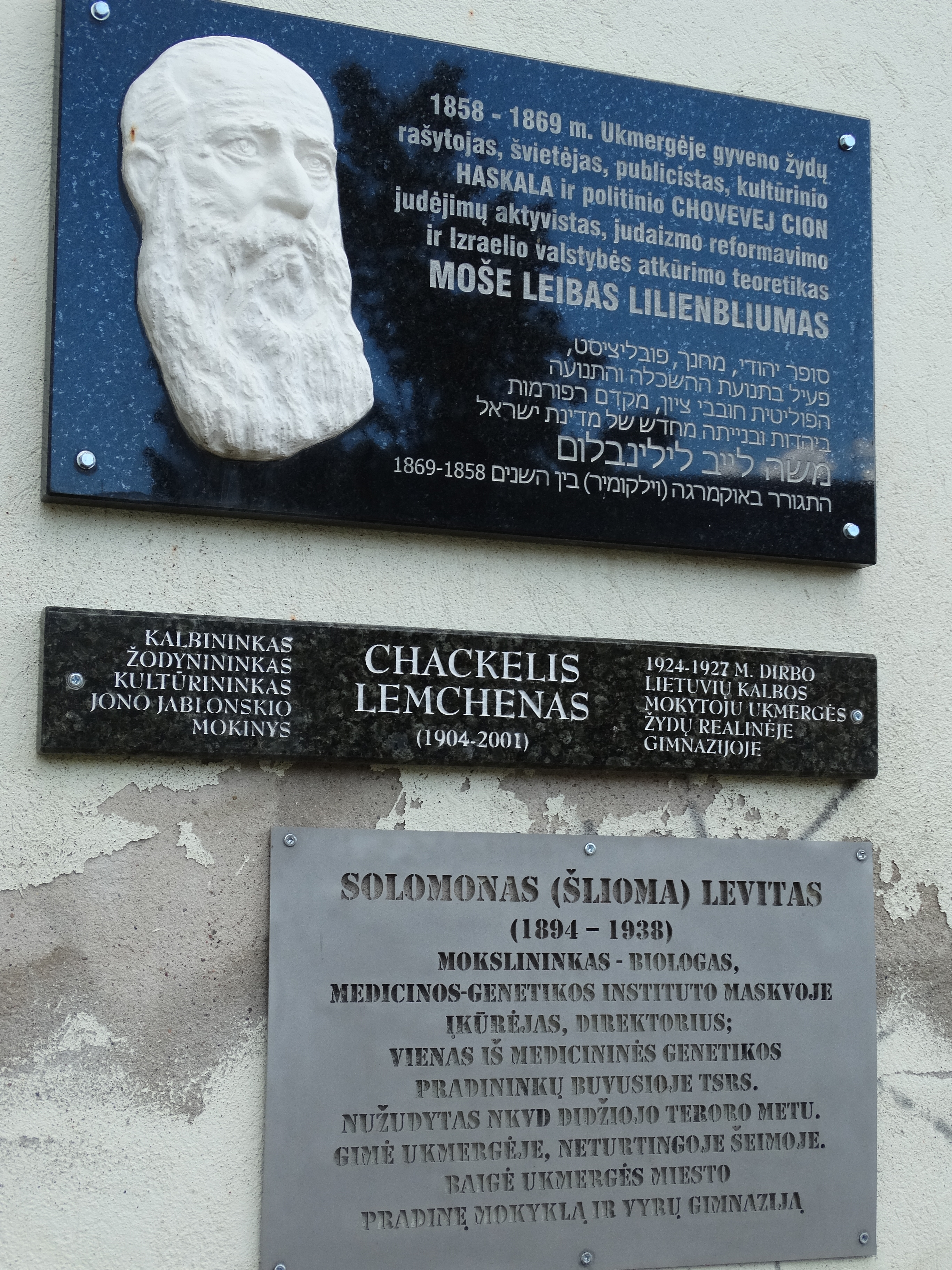 Memorial plaques on the former Great synagogue, Ukmergė, Lithuania